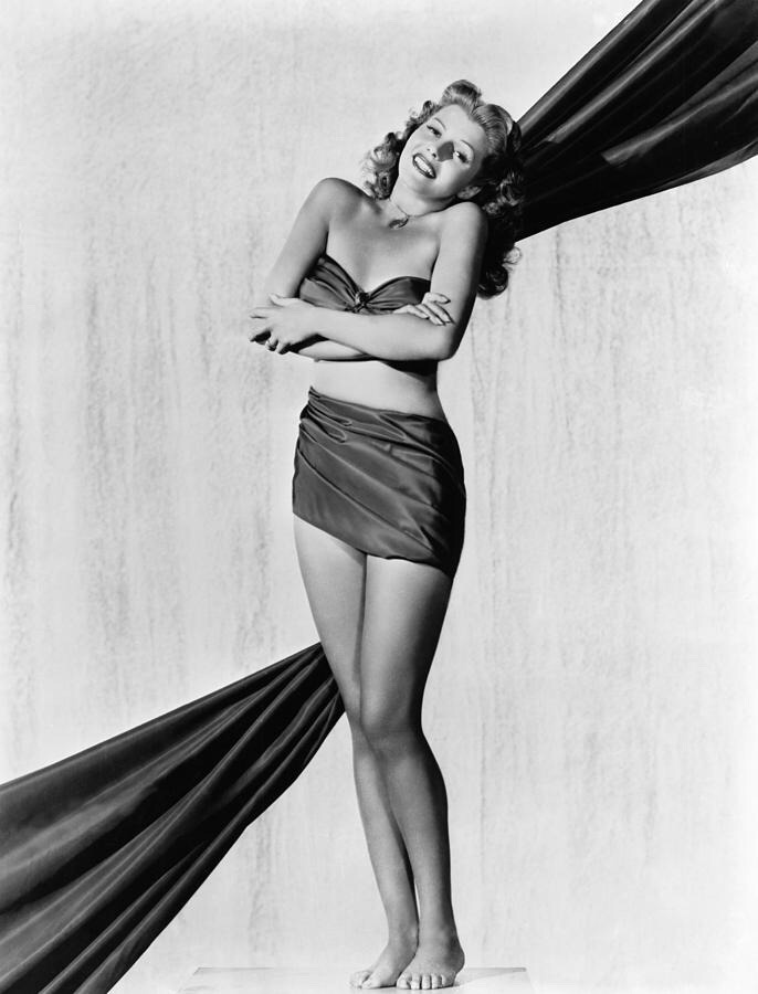 Pin-up photo of Rita Hayworth for the Jul. 7, 1944 issue of Yank, the Army Weekly, a weekly U.S. Army magazine fully staffed by enlisted men.